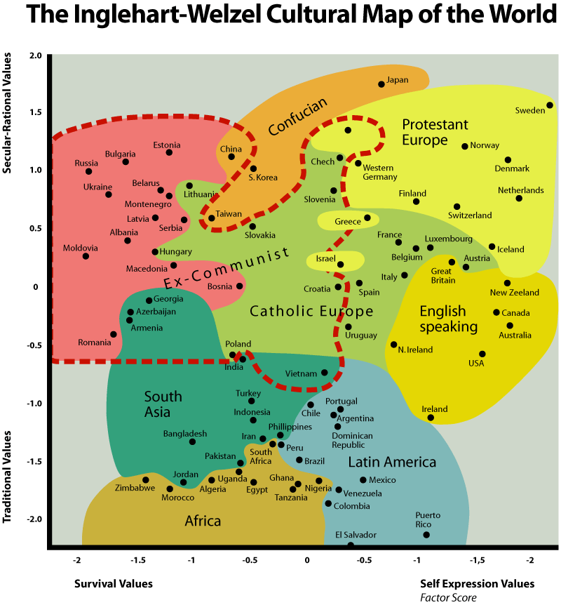 An Inglehart-Welzel Cultural Map of the World: World Secular-Rational and Self Expression Values as a map of world cultures based on World ((the inscription missing point above Czech and West Germany is East Germany) Values Survey data – survey wave 4, finalised 2004.; data is also available in the doc file at [1]